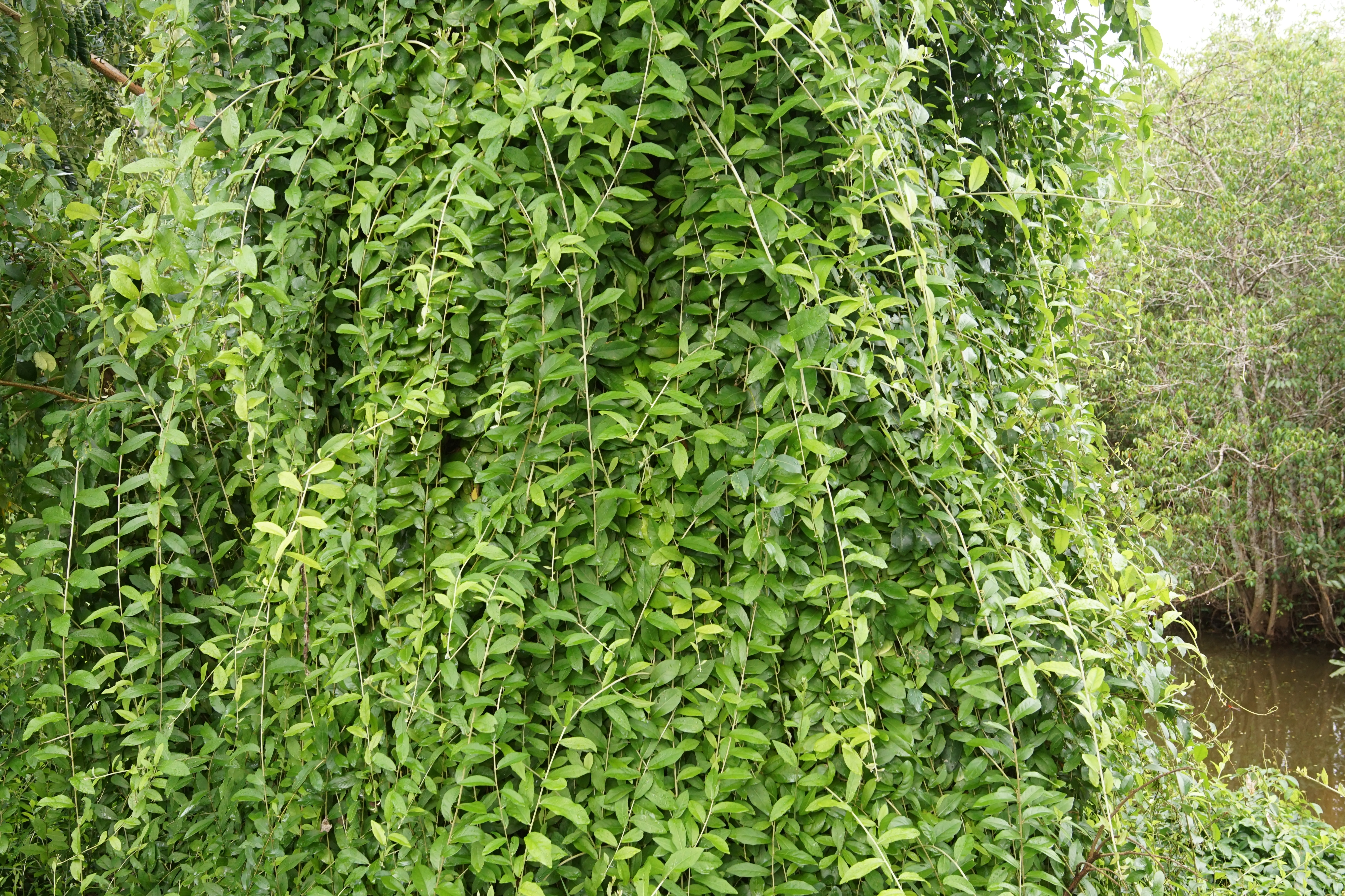 Sarovaram